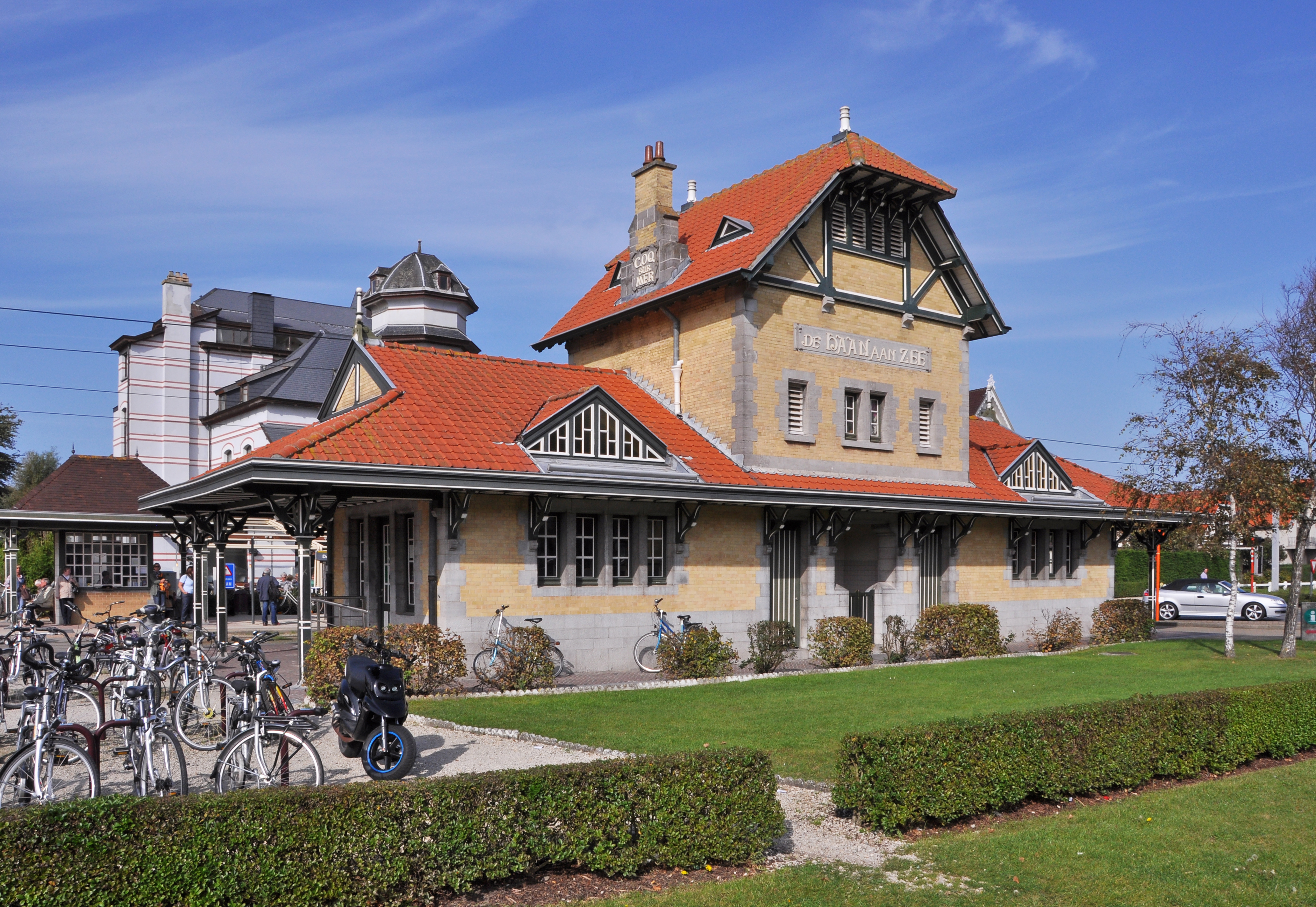 De Haan (Belgium): tram station